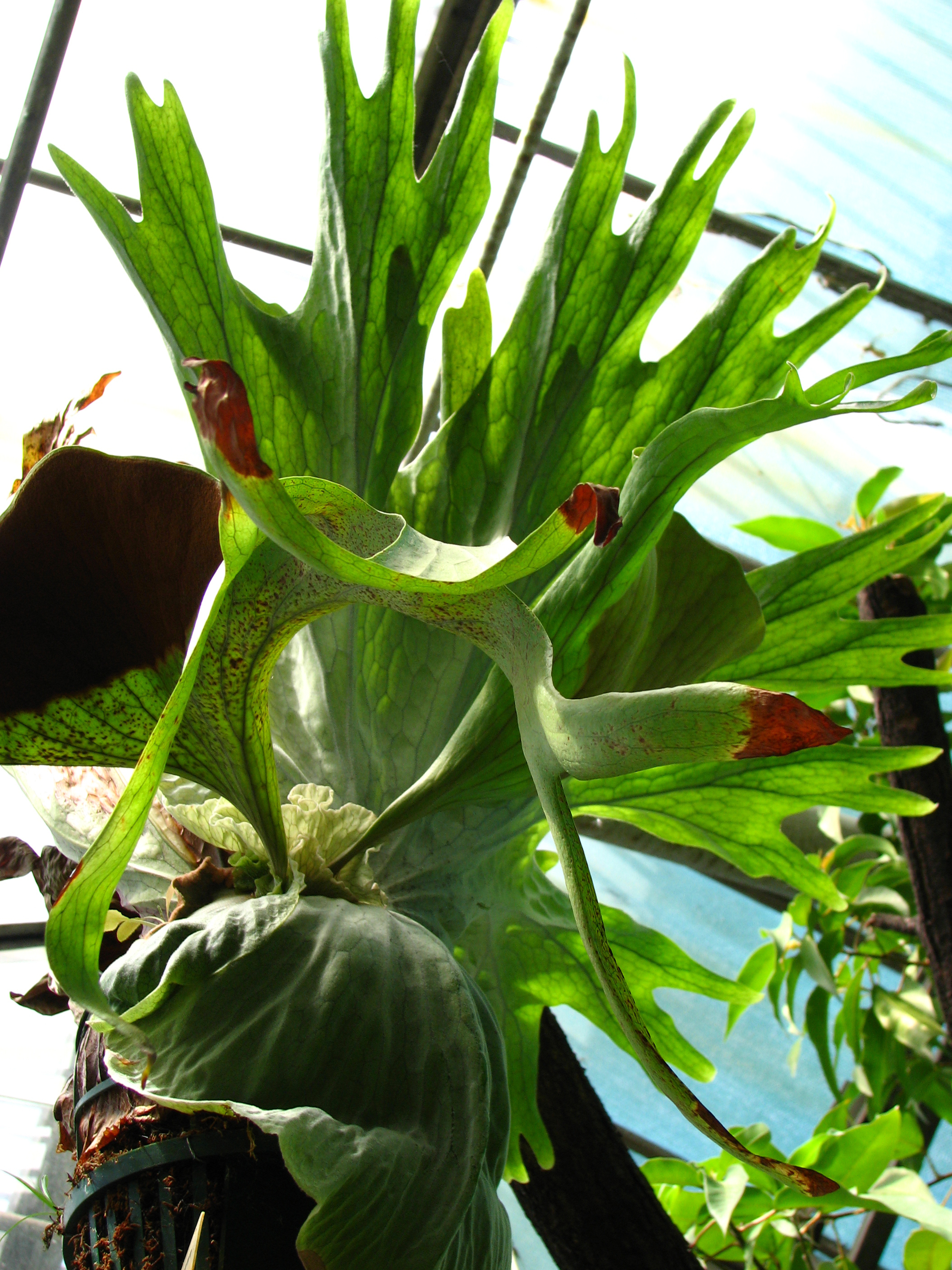 Greenhouses of the Botanical garden (Saint Petersburg).